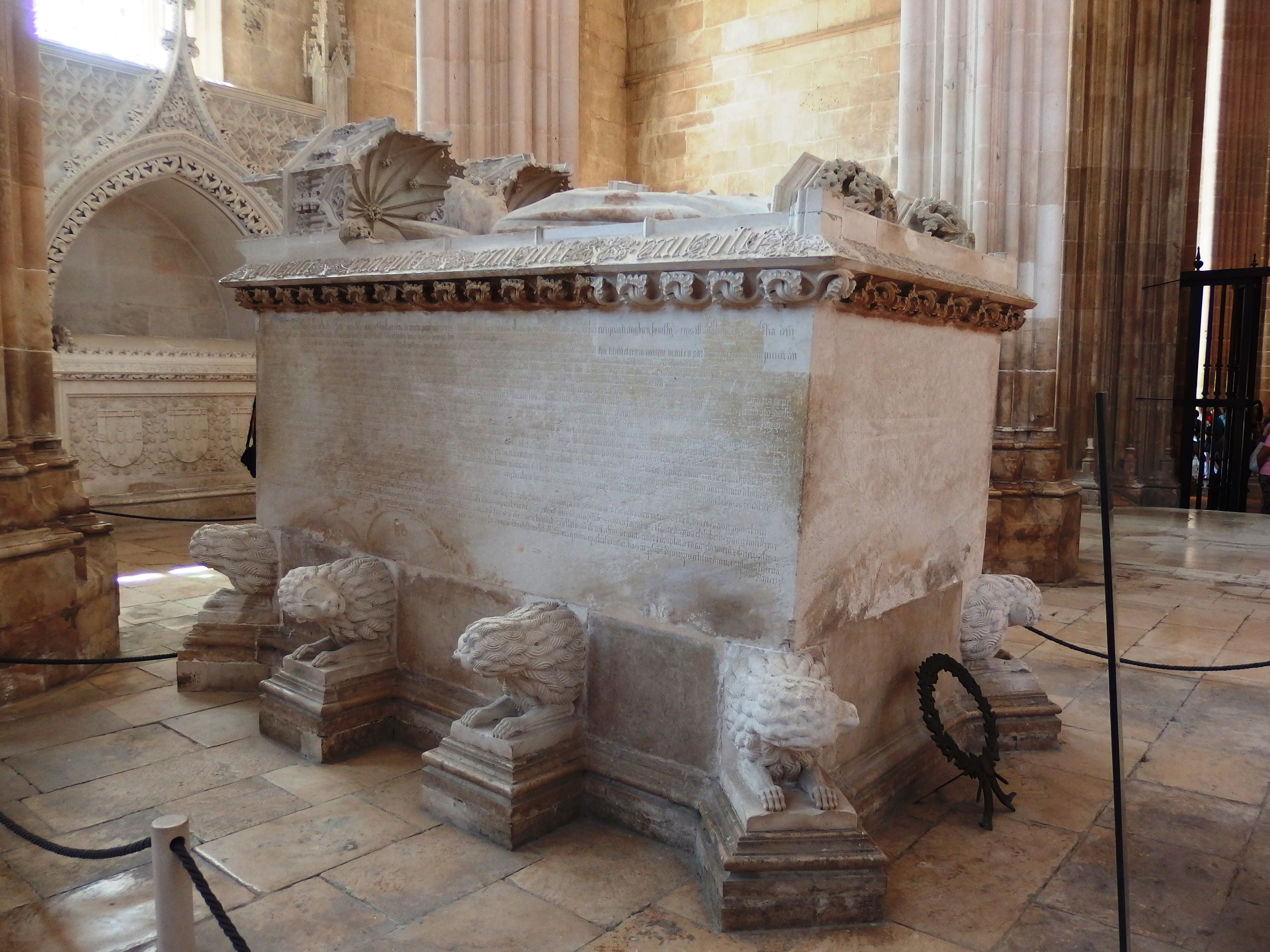 Batalha, Portugal. Monastery, tombs of King John I of Portugal and Philippa of Lancaster.